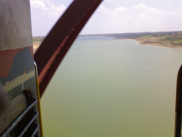 view of Chambal river from Taj express train by vishwas